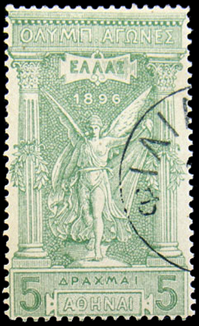 Stamp of Greece, The First Olympic Games, 1896, 5d.